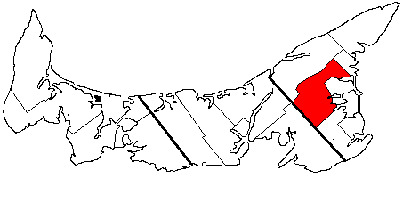 Adapted from existing Prince Edward Island election results maps to depict a specific electoral district.